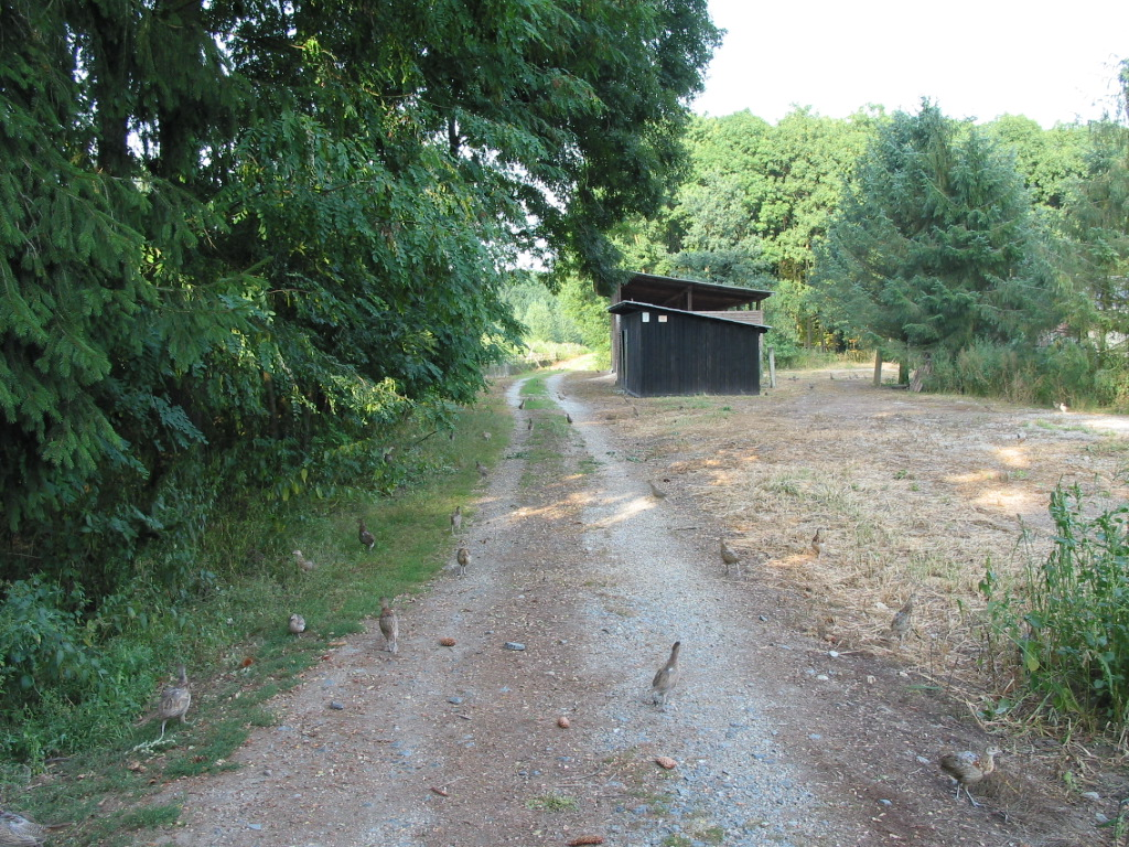 Pheasant farming in Litovelské Pomoraví protected landscape area in okres Olomouc (Czech Republic). Common pheasant is introduced species in The Czech Republic. Photo taken 9 Aug 2003. Photo by Michal Maňas.